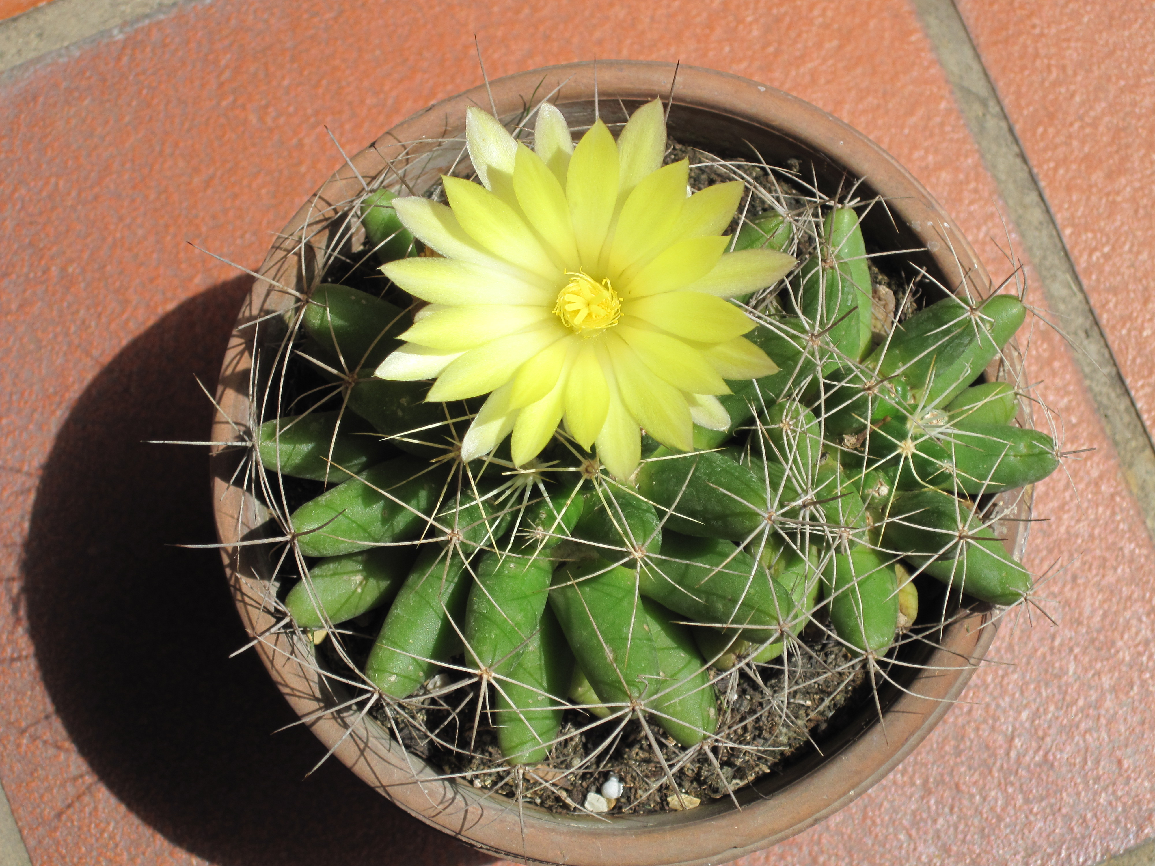 Mammillaria longimamma in flower